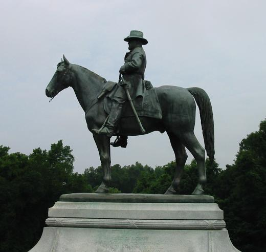 Statue of General Grant at Vicksburg National Military Park. Photograph by J. Williams (May 20, 2003).